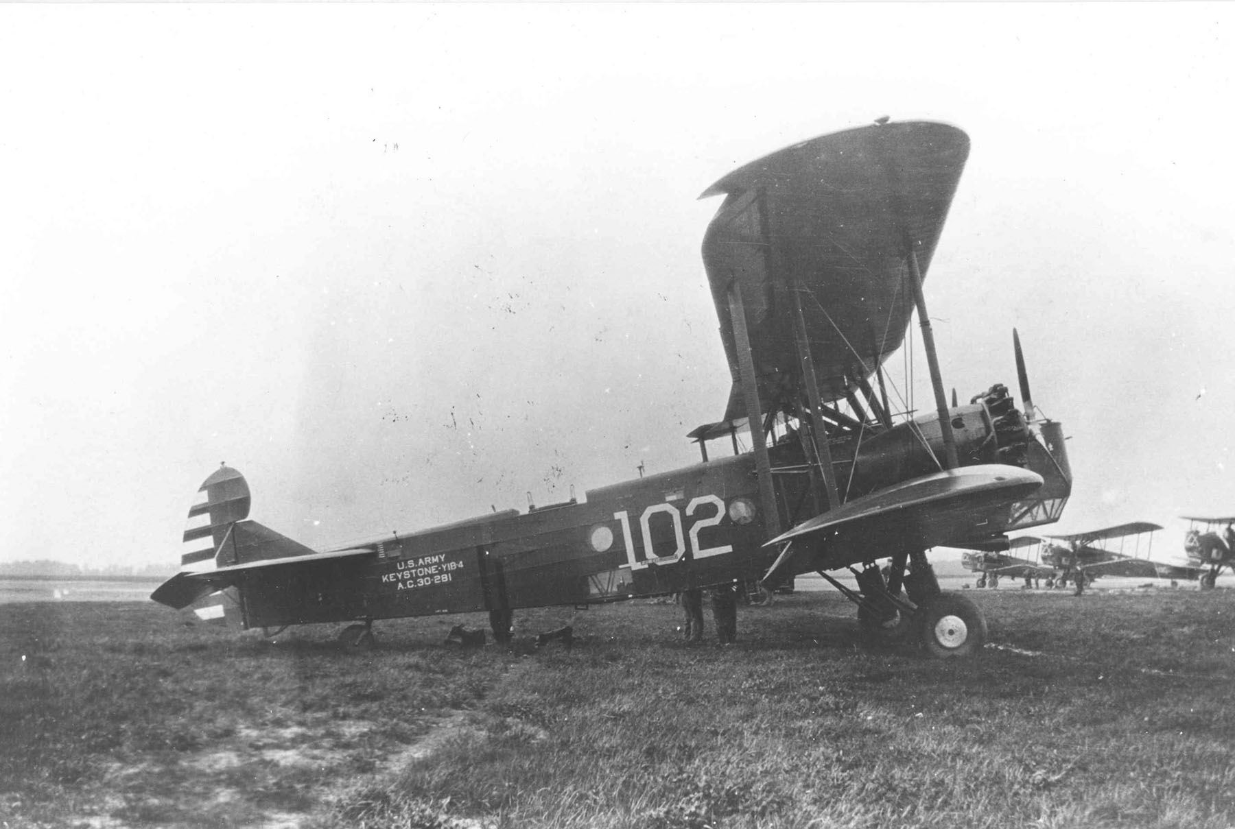 Keystone Y1B-4 bomber, serial number 30-281. This aircraft was originally the first Keystone B-3A to be built; it was converted into a Y1B-4 by adding larger, more powerful Pratt & Whitney R-1860-7 Hornet B radial engines, as well as low-pressure tires.